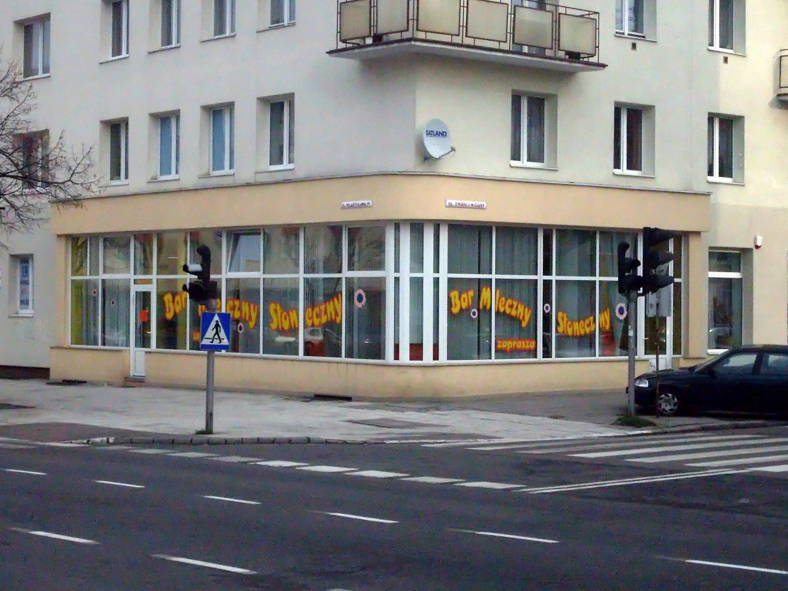 Dairy bar at ulica Władysława IV, Gdynia.